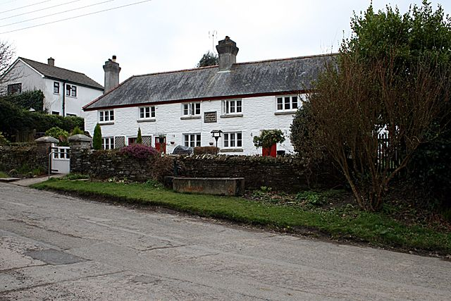 Alms Houses at Playing Place The plaque on the wall reads Mr Lanyons Alms Houses 1726